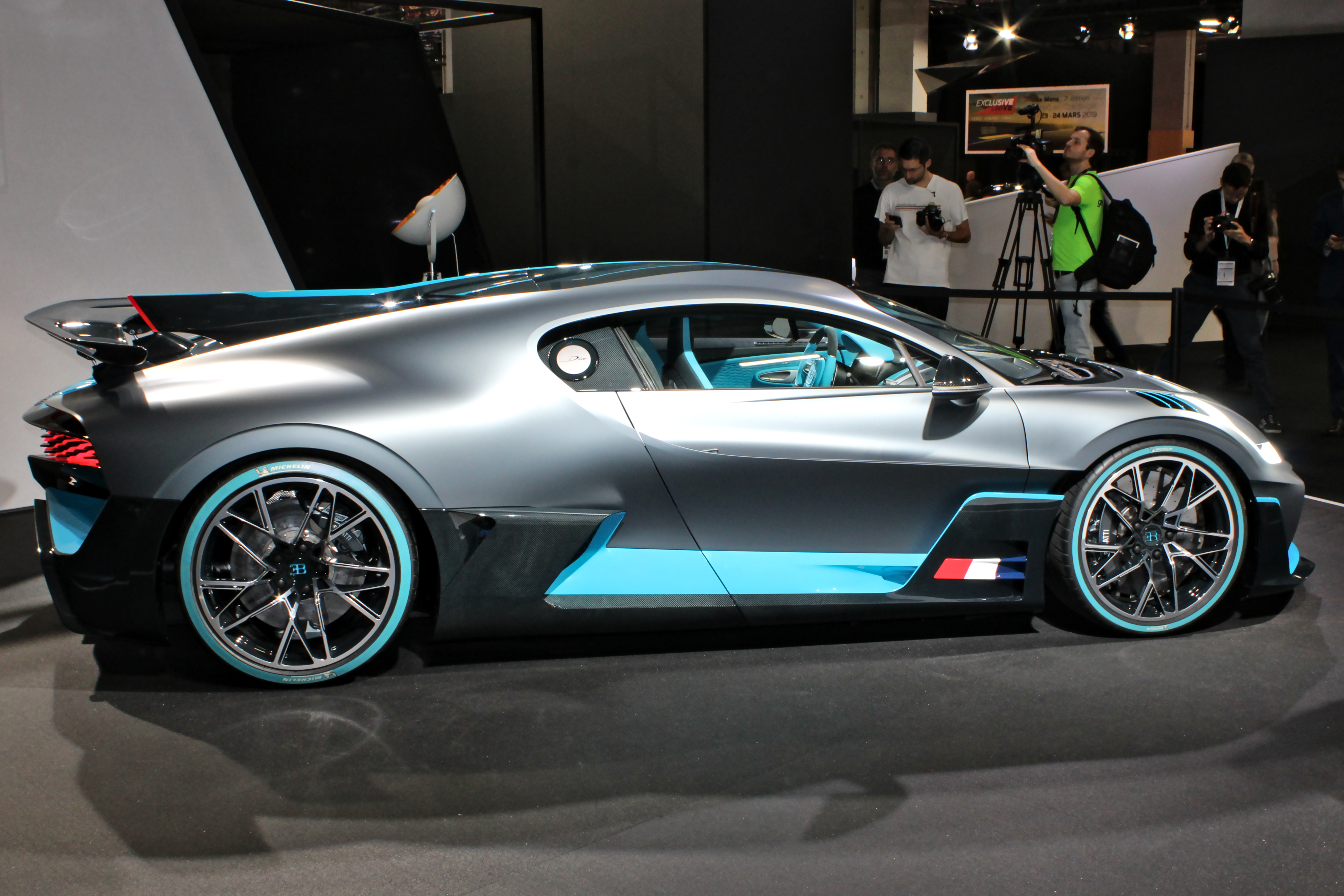 Bugatti Divo at Paris Motor Show 2018